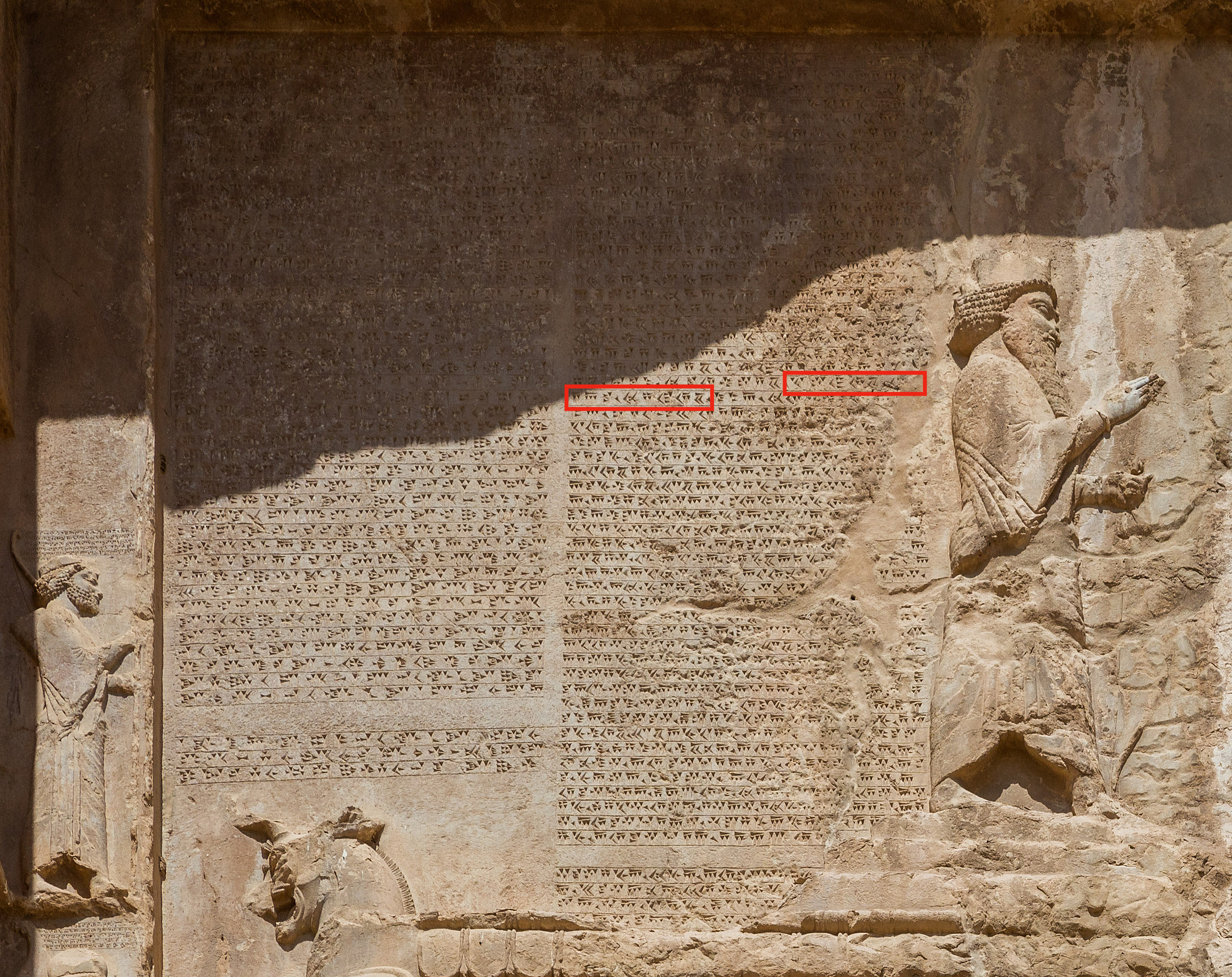 Tomb of Darius I DNa inscription with mentions of the territories of Tathagus, Gadara and Hidush